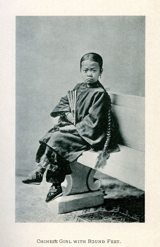 Chinese girl with bound feet